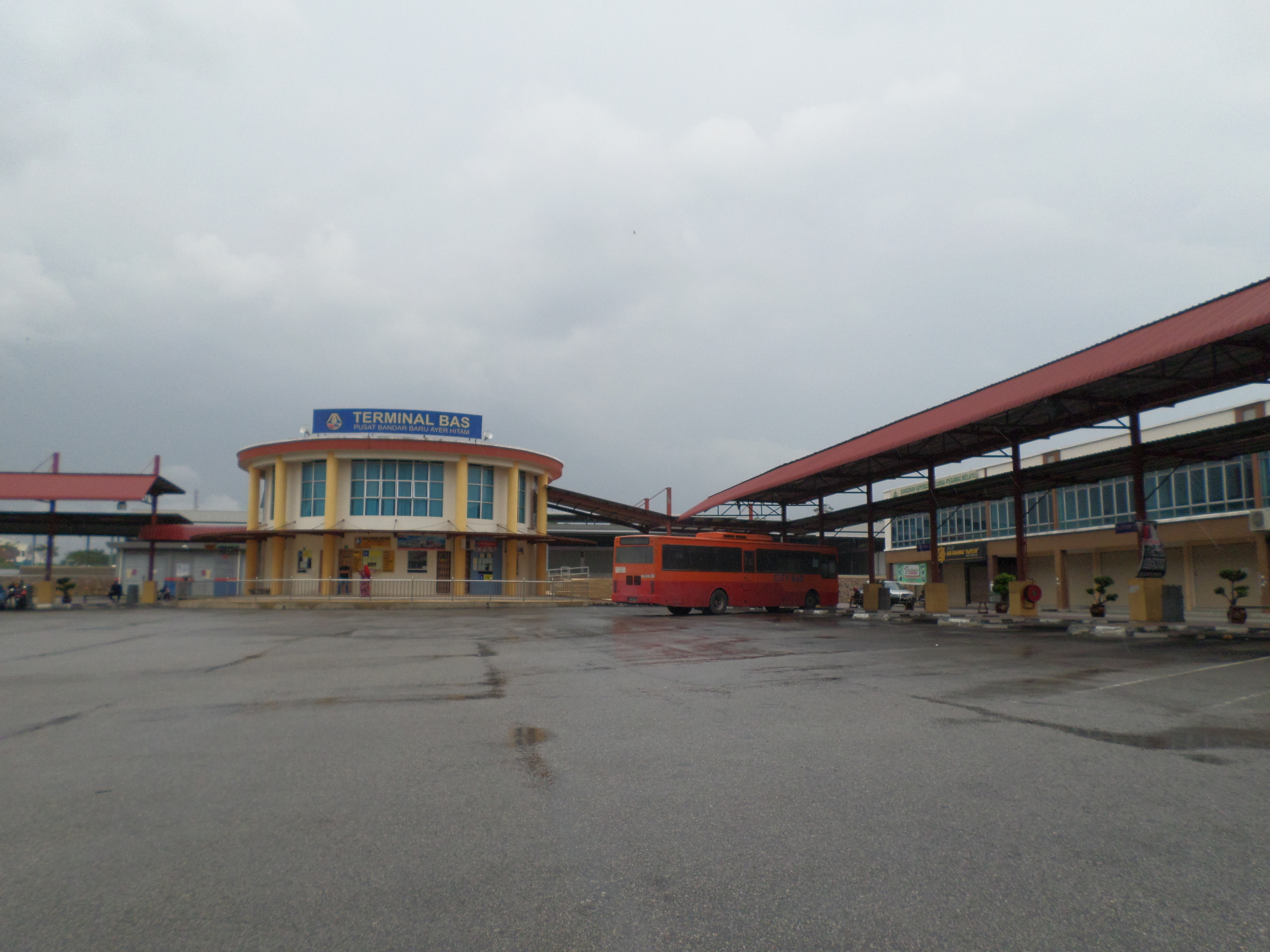 Ayer Hitam Bus Terminal, Ayer Hitam, Batu Pahat, Johor, Malaysia